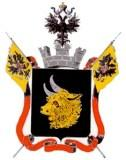 Redoubt-Kale (now Qulevi, Georgia) coat of arms within the Russian Empire